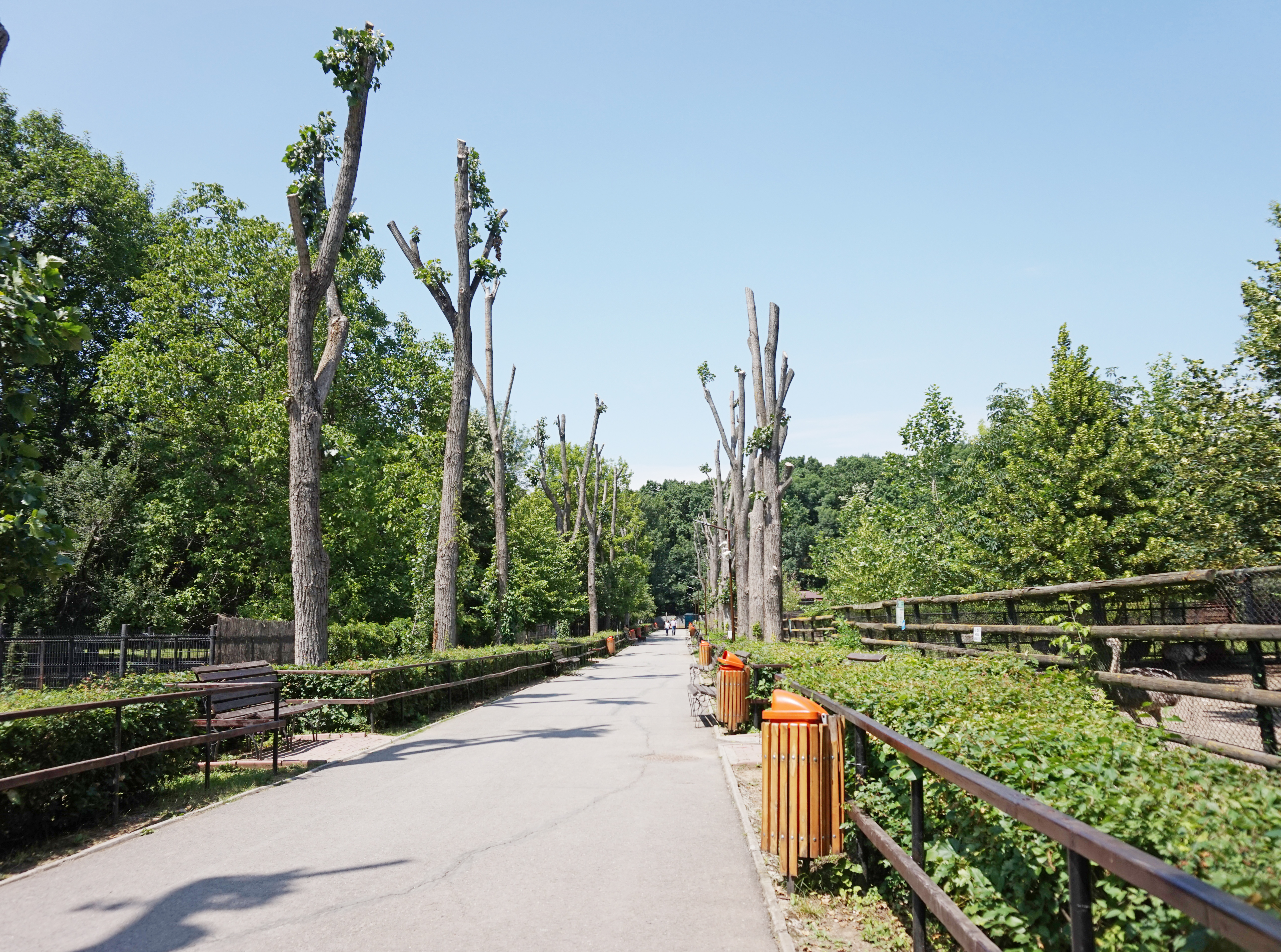 Bucharest Zoo This photograph was taken with a Sony Alpha a5000.